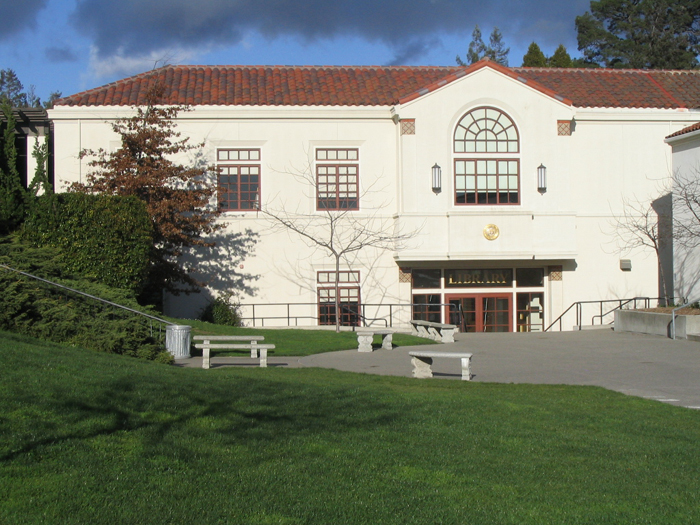 Piedmont High School library Photo taken February 23, 2007 when school was not in session.